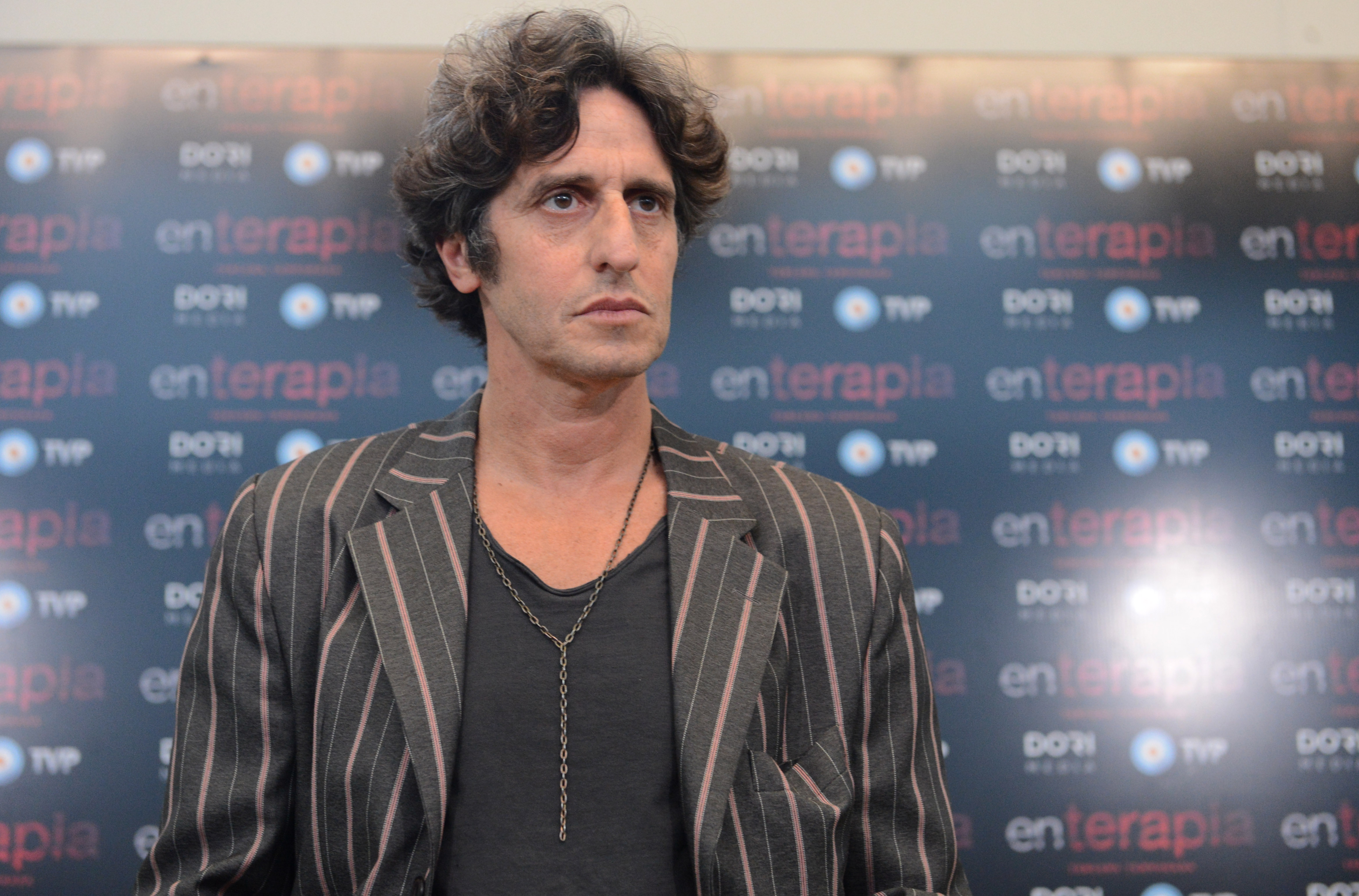 Diego Peretti y Cecilia Roth. Presentación En terapia 3ra temporada. 20.10.2014. Foto TVP 2014